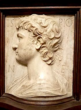 Medieval Portrait of Scipio Africanus (from the collection of the Philadelphia Museum of Art)